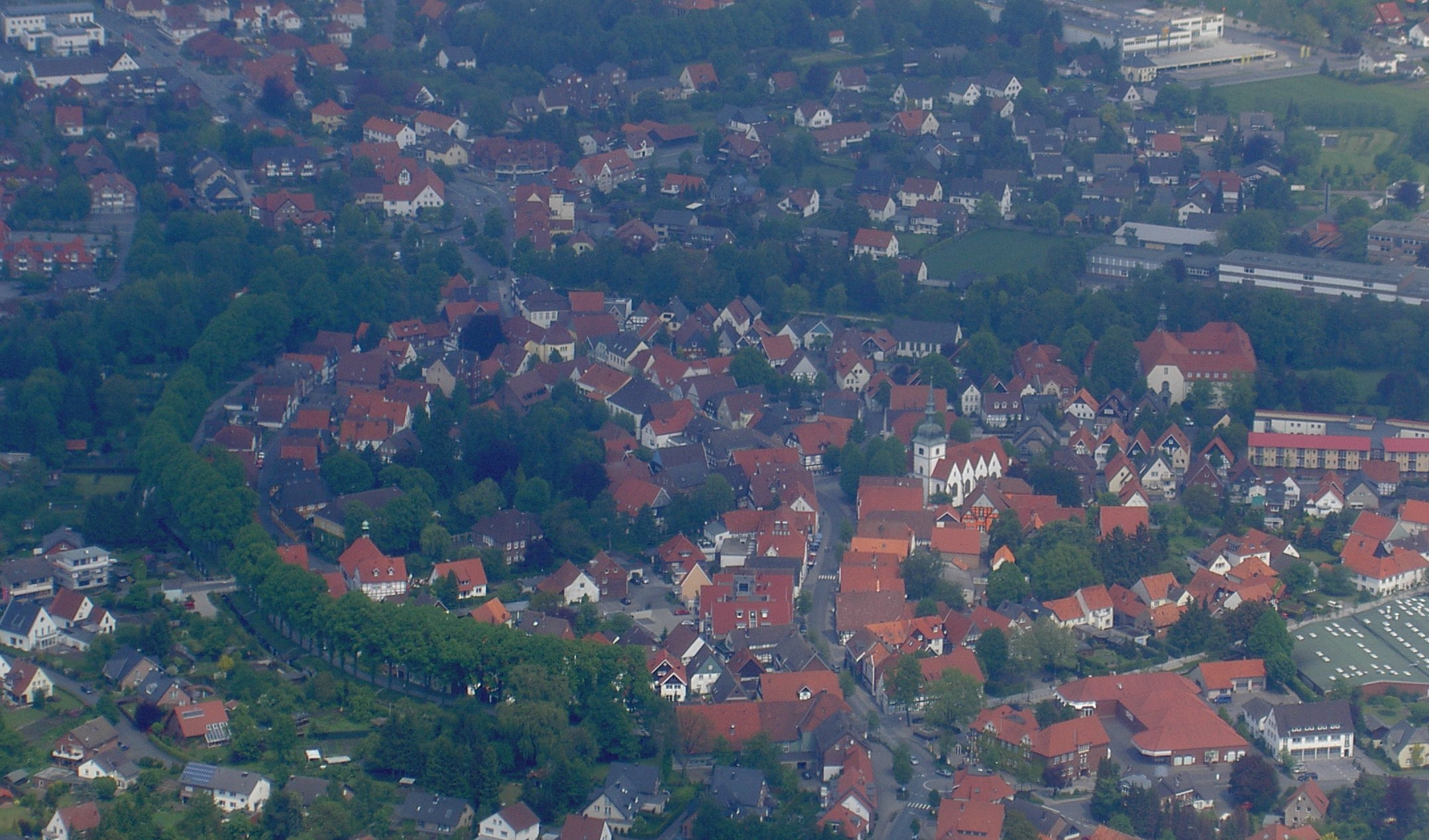 Town Centre of Rietberg, taken from plane